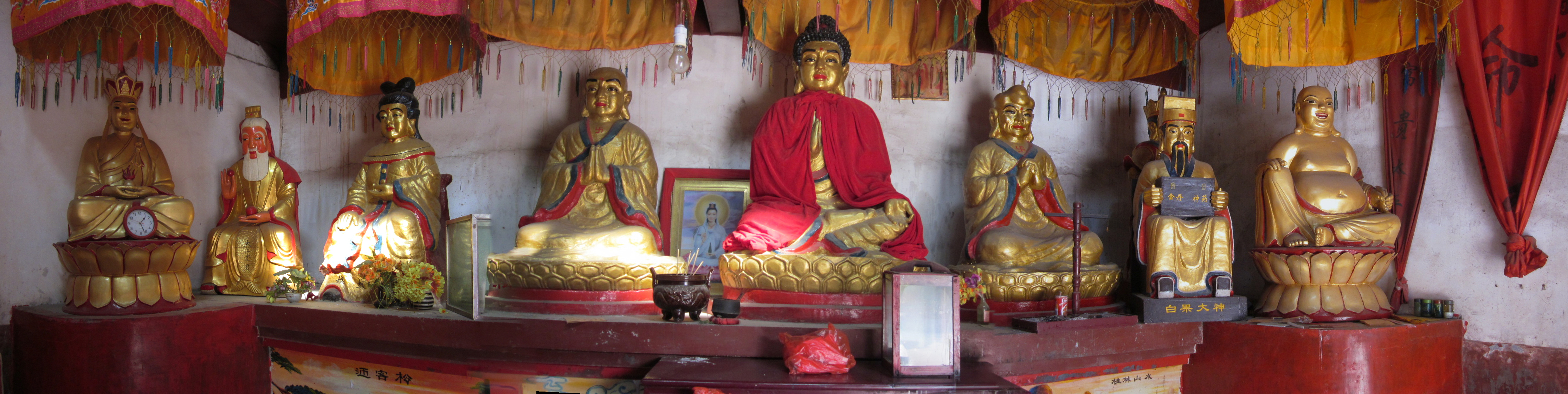 Shangliu Temple is a Buddhist temple in Qingshanqiao Town of Ningxiang, Hunan, China.